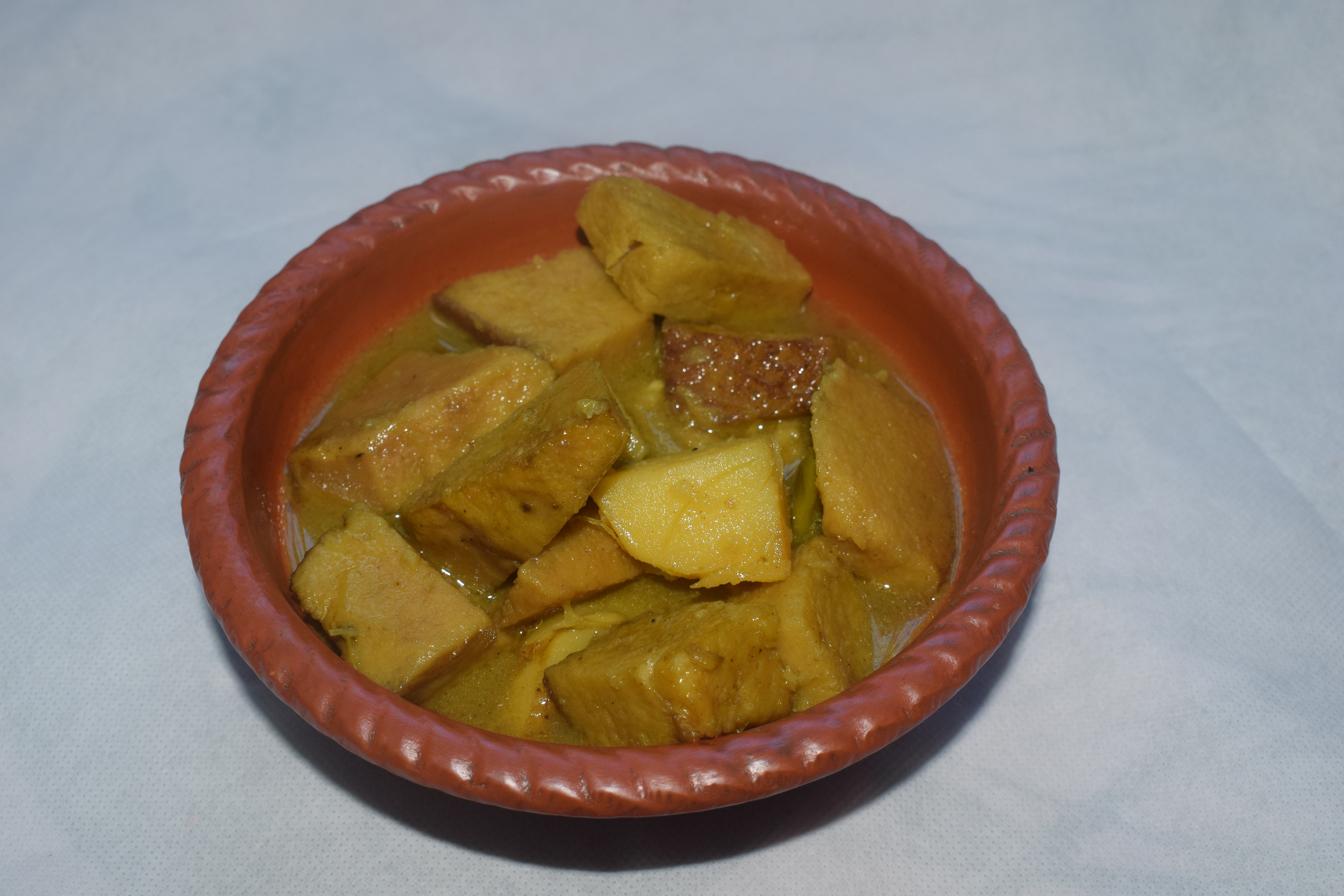 Elephant Foot Yam